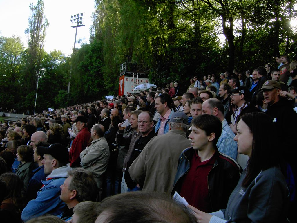 Crowds at the Stadium Marienthal in Hamburg-Wandsbek, homeground of the S.C. Concordia von 1907. Picture taken by User:Mghamburg on 14th May 2006 during the regional cup game between S.C. Concordia (red shirts) and FC St. Pauli (white shirts)